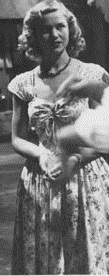 Trudy Tomis- actriz